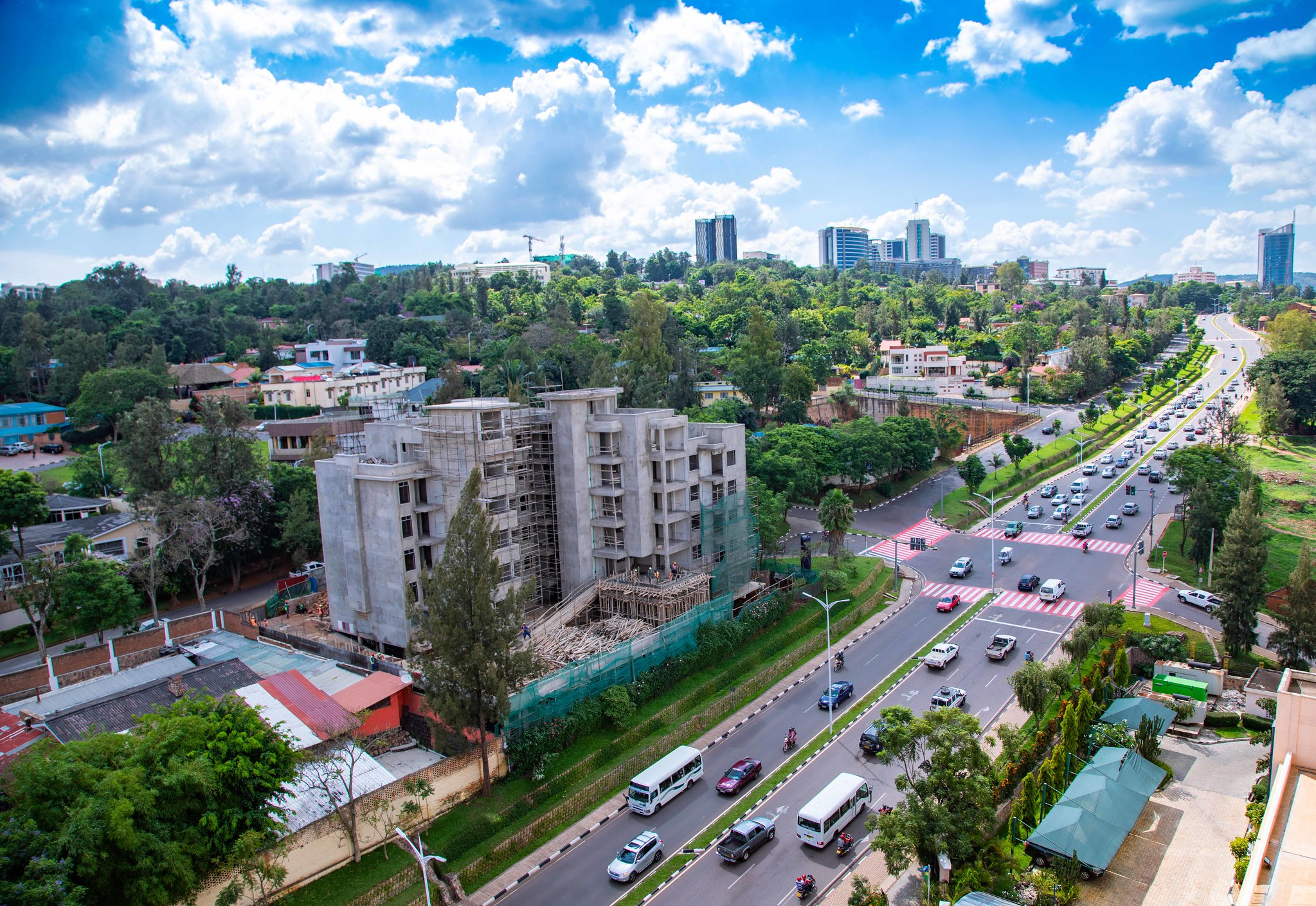 High Angle View Of Kigali City Street on November 29, 2018. Most of the people in Rwanda's capital use this kind of transport.Emmanuel Kwizera This is an image with the theme "Africa on the Move or Transport" from: Rwanda